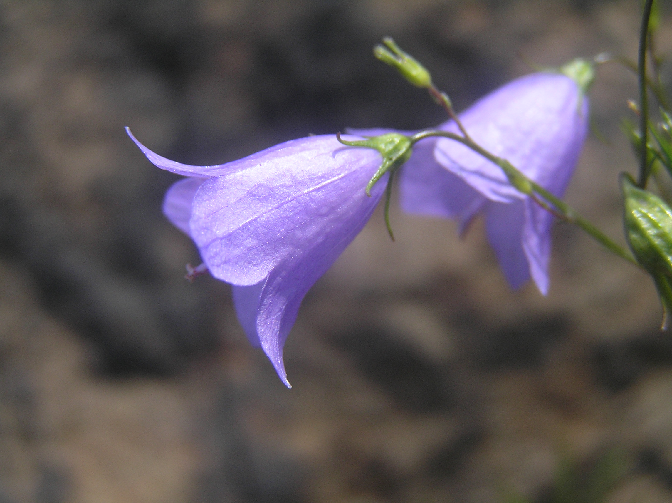 Campanula gentilis, Vrané nad Vltavou, Czech Republic